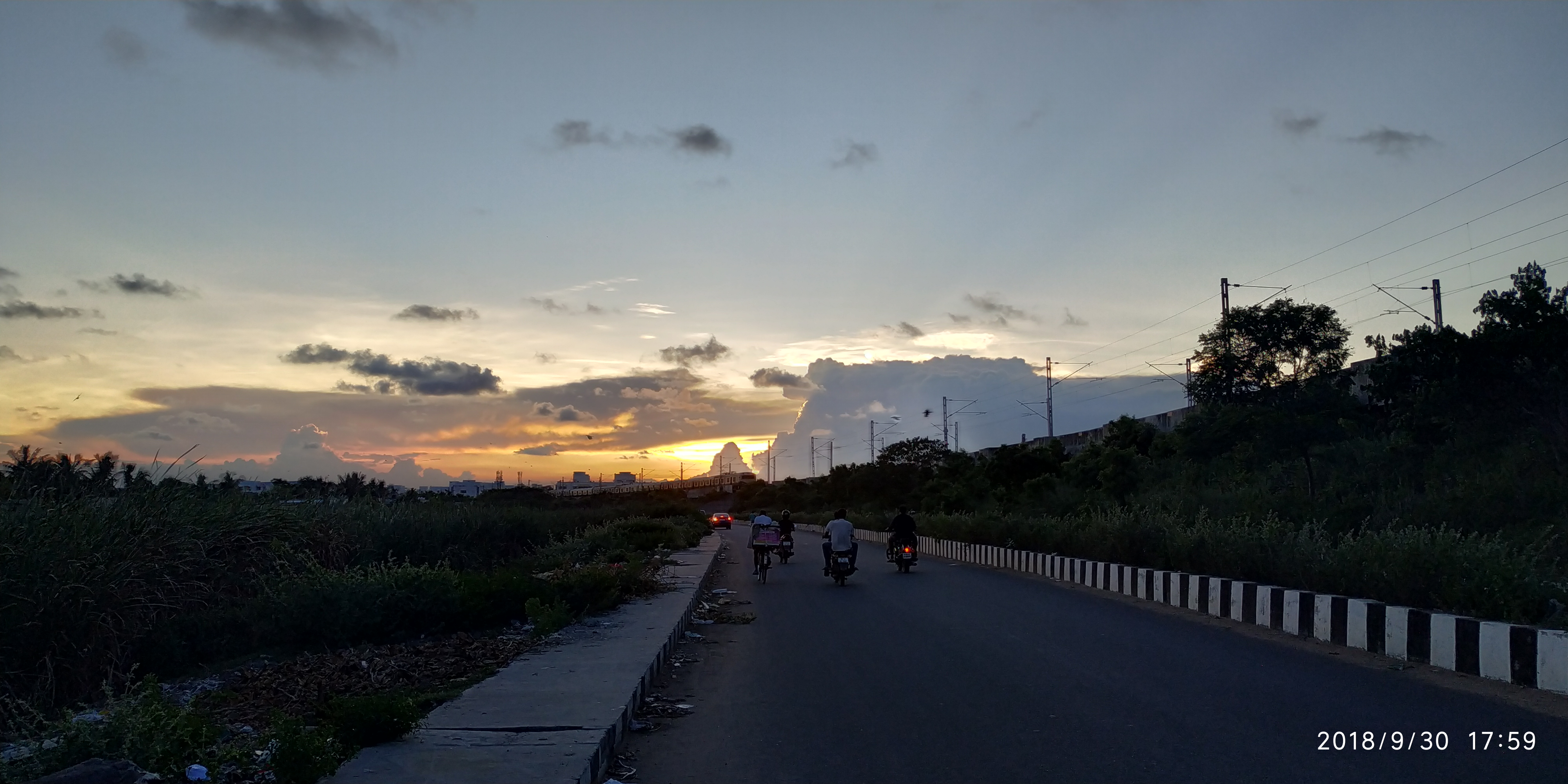 Perungudi Taramani Railway Stations road